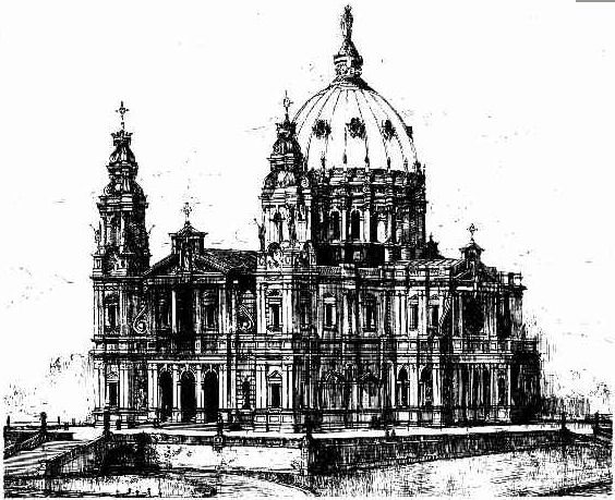 Design for the Holy Name Cathedral, Brisbane